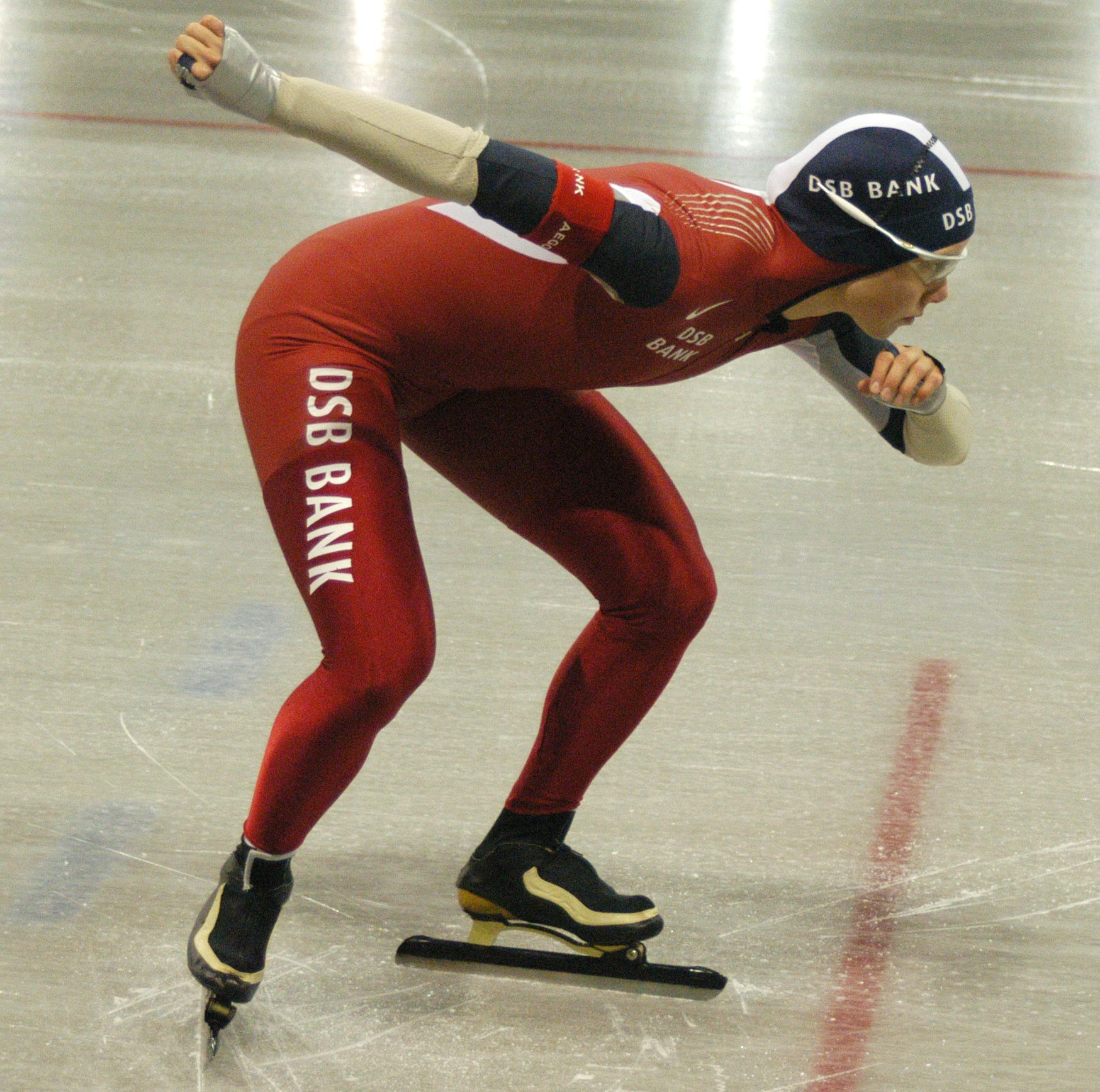 Laurine van Riessen (NED) before the start of the second 1000 meters of the 2009 Dutch Speed Skating Sprint Championship at Groningen, the Netherlands.